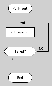 The DRAKON chart for the work out algorithm.